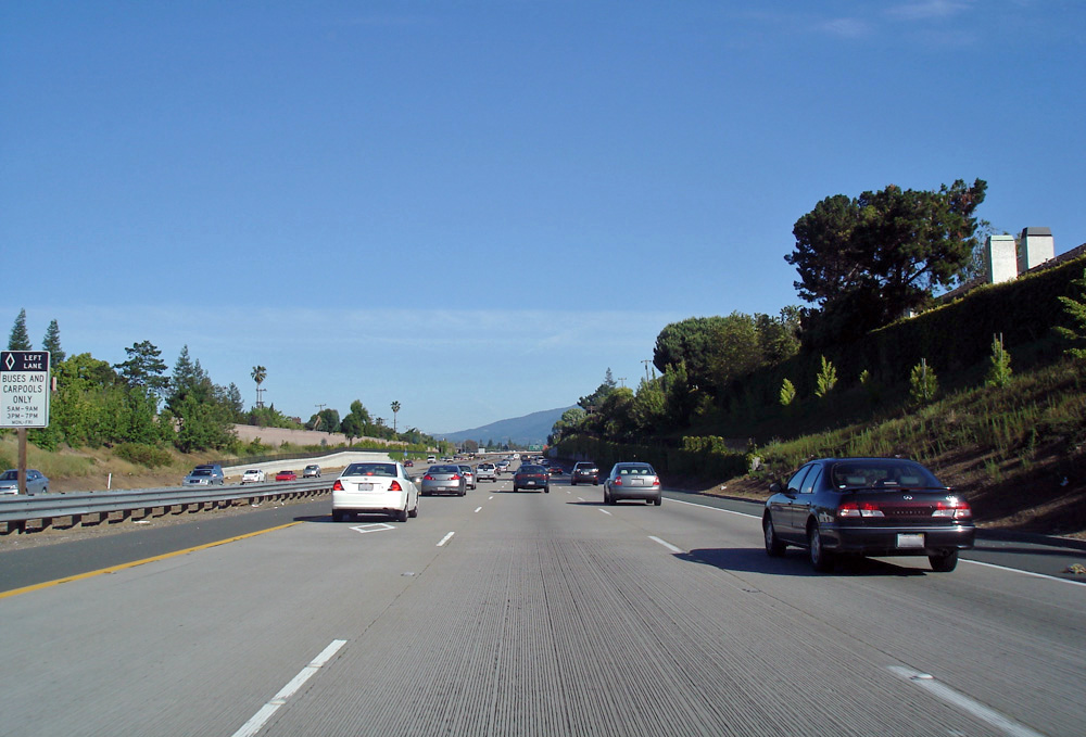 State Route 85| through San Jose. State Route 85 through San Jose.